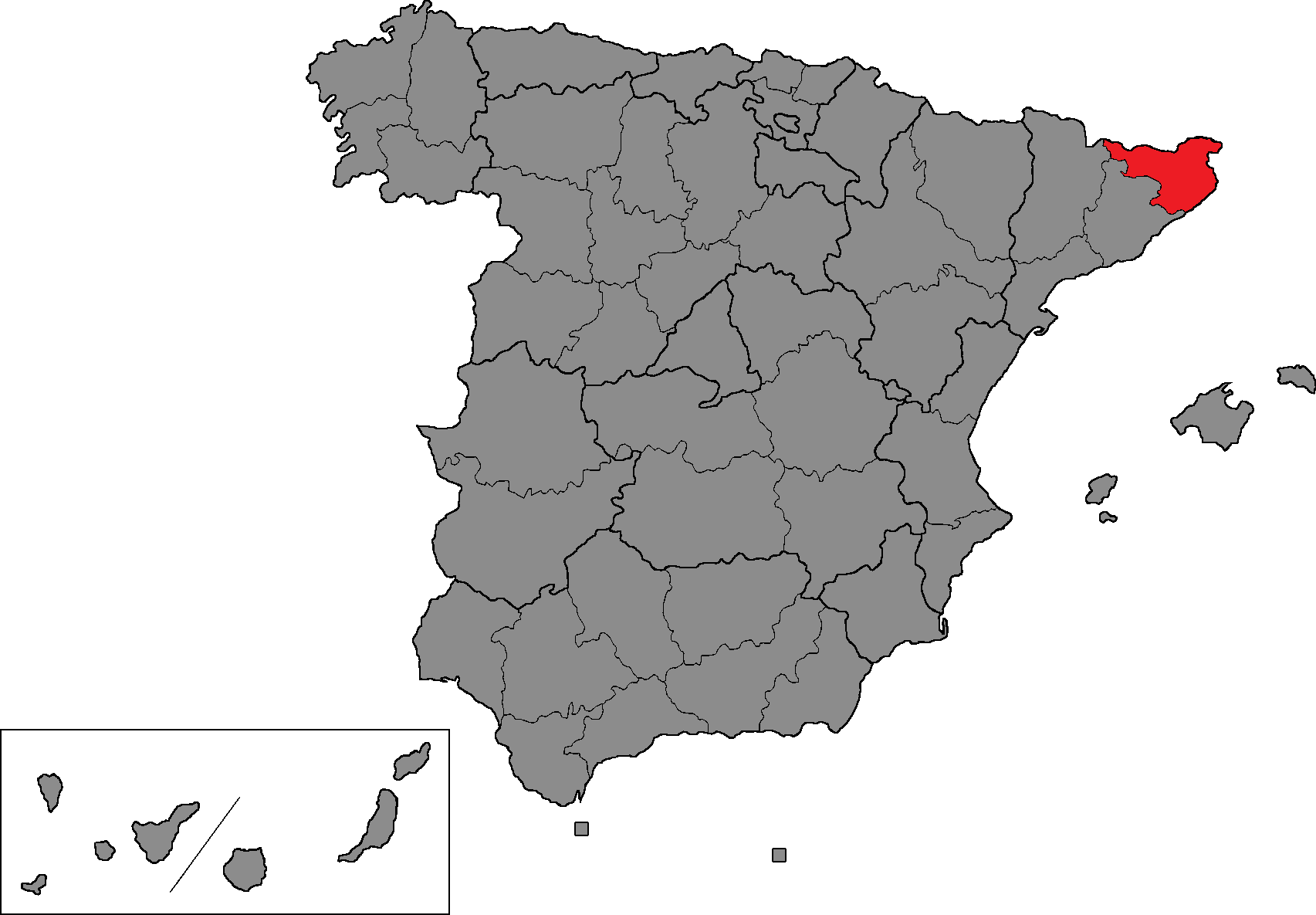 Spanish Congress of Deputies district of Girona.